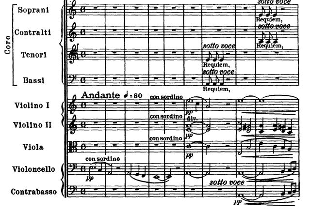 Opening of Verdi's Requiem